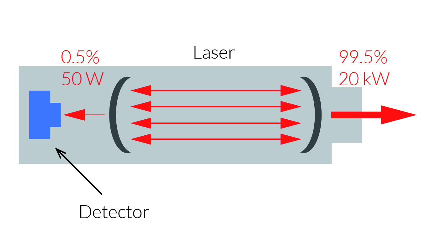 Application